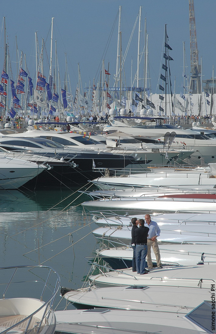 Genoa International Boat Show - Italy